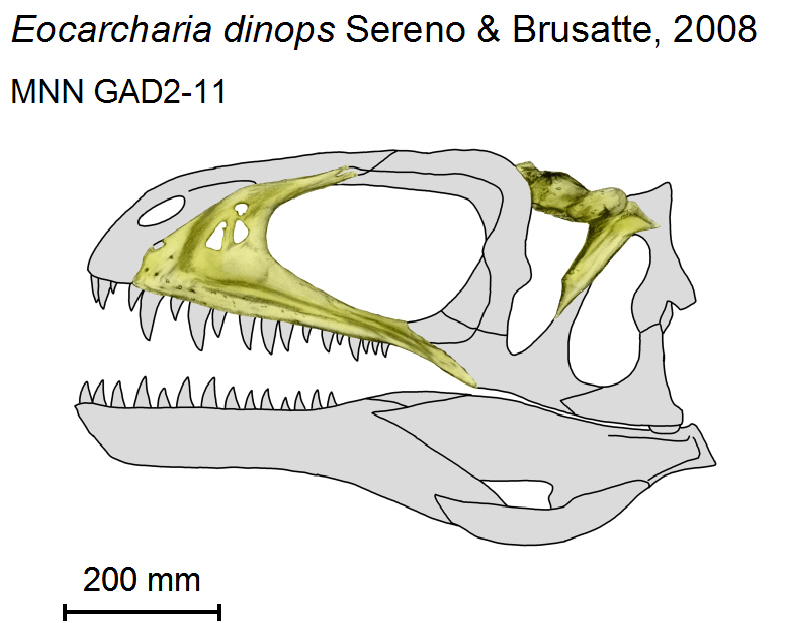 Eocarcharia dinops, a carcharodontosaurid theropod from the Early Cretaceous of Niger, skull reconstruction based on refered specimens described by Sereno et Brusatte, 2008, and related genus Acrocanthosaurus, pencil drawing, digital coloring